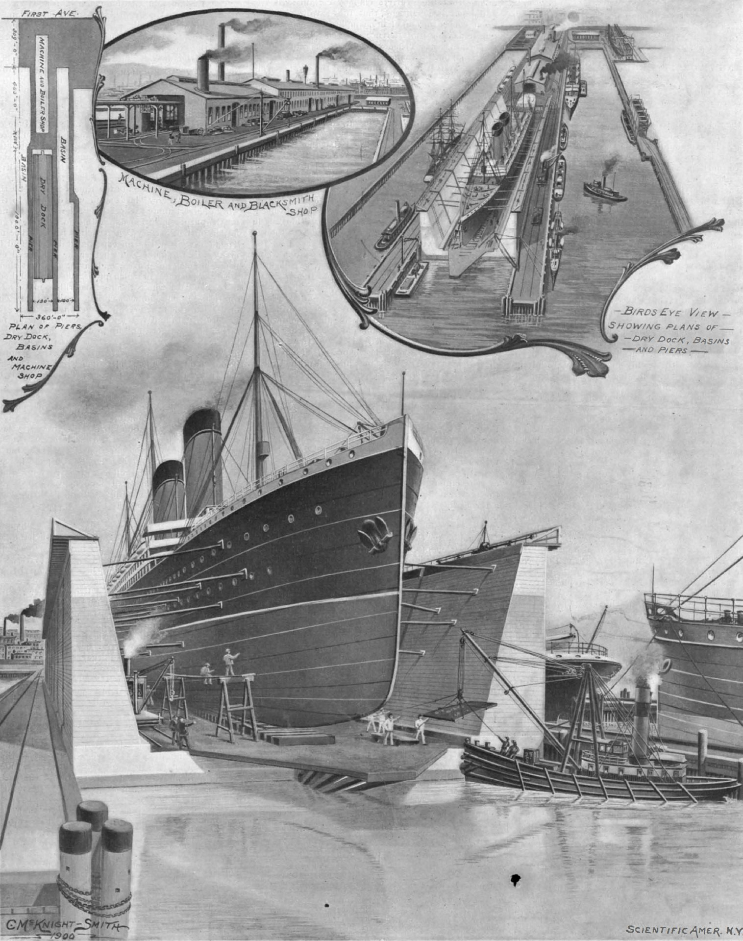 Illustration of the planned sectional dock, piers and workshops of the Morse Dry Dock Company, New York, 1900. The illustrations are based on company plans as construction of these facilities was not completed until 1903. The artist has imagined the floating dock as it would look with the just-completed British ocean liner Oceanic in it, then the world's largest liner but capable of being lifted by the 700-foot dock.